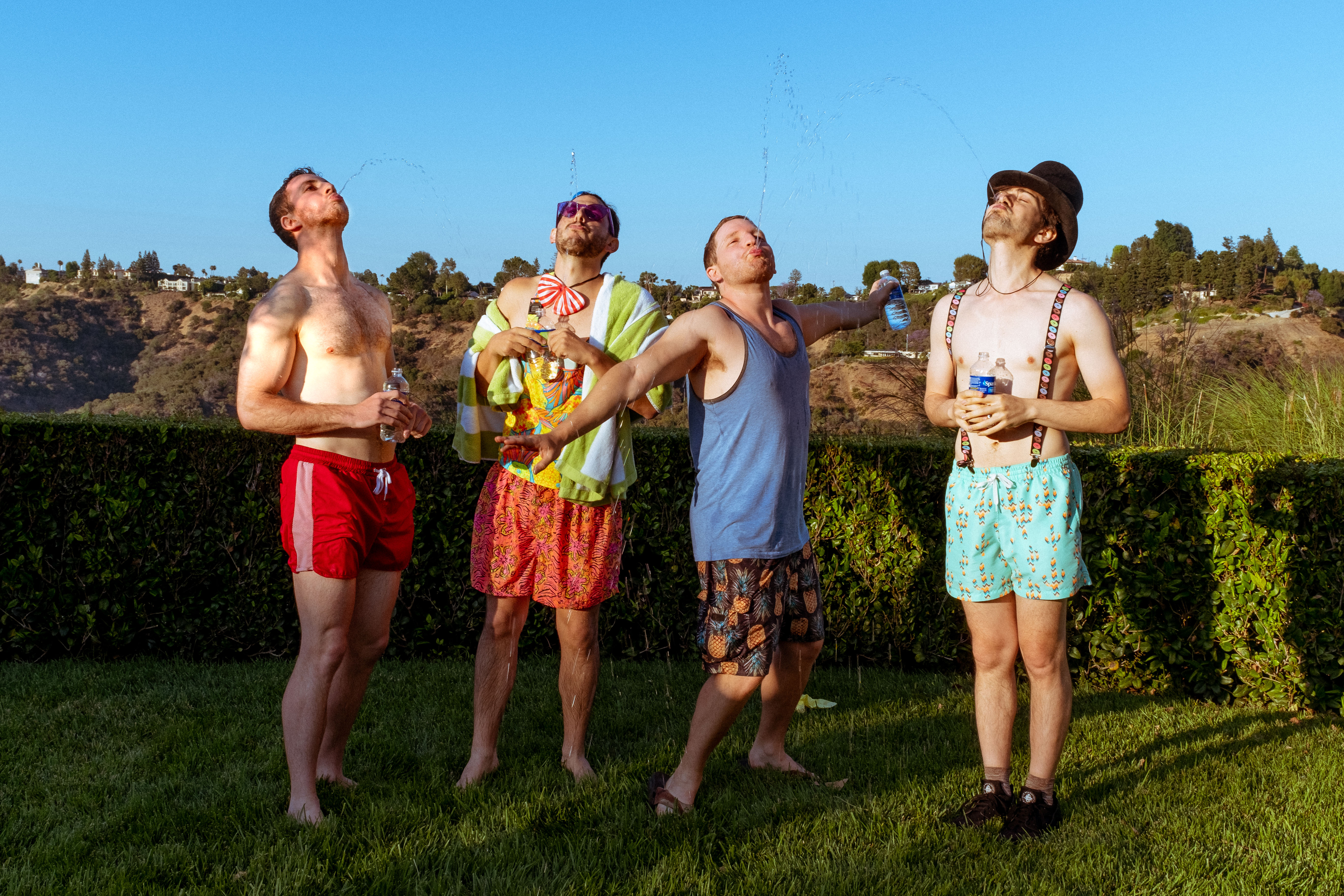 The Human Fountains comedy and performance group, in the Summer of 2018